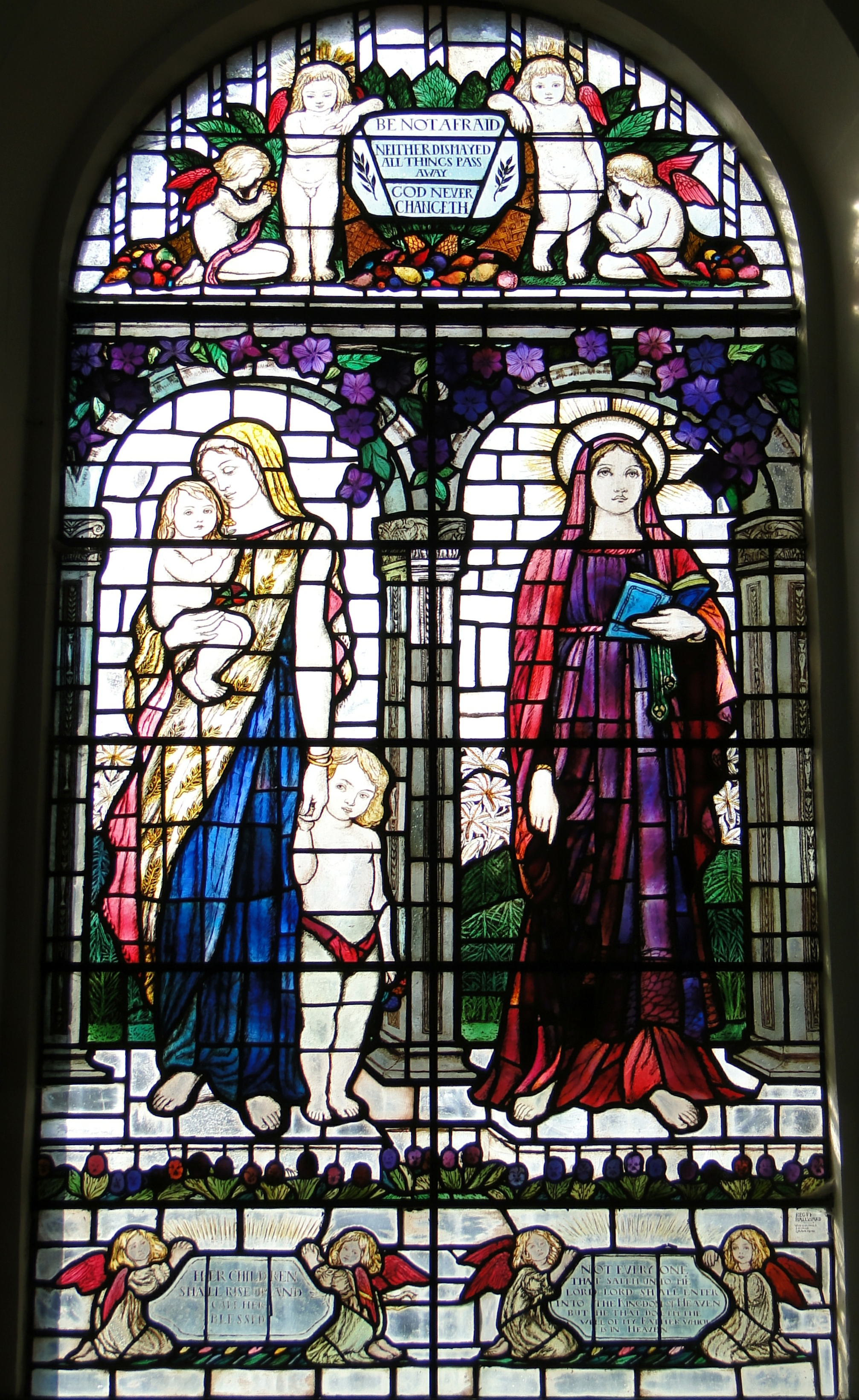 Stained glass window in the parish church of St Mary the Virgin, Ingestre, Staffordshire, designed by Reginald Hallward